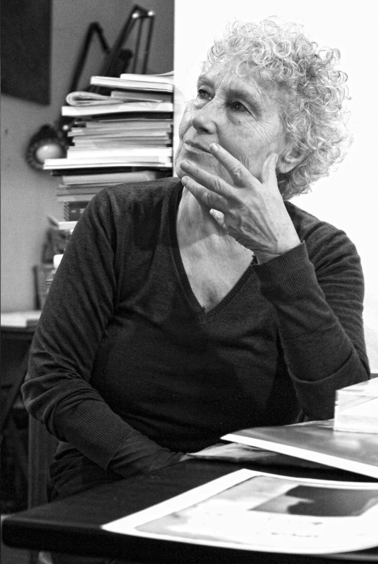 Portrait of italian artist Renata Boero